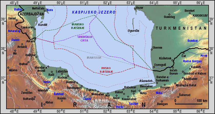 Iranian maritime borders in Caspian Sea with Croatian descriptionHrvatski: Iranske morske granice u Kaspijskom jezeru